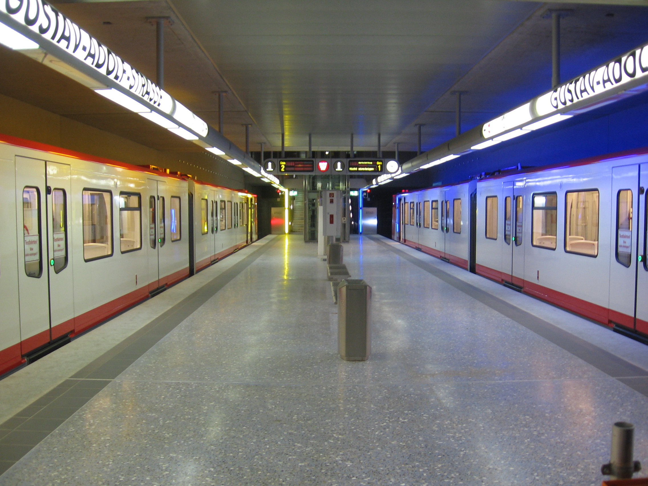 Image of a DT3 of Nuremberg U-Bahn (Nuremberg, Germany) at station Gustav-Adolf-Straße